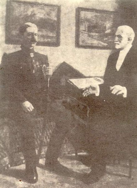 Andranik Ozanian and Hovhannes Tumanyan.